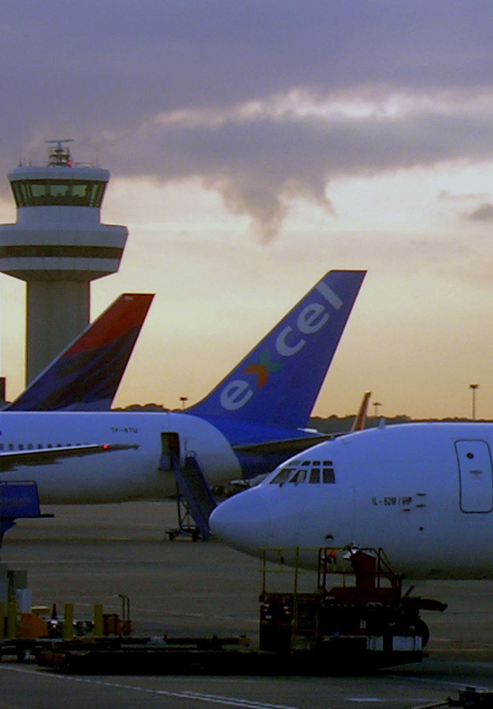 Arriving from Sevilla